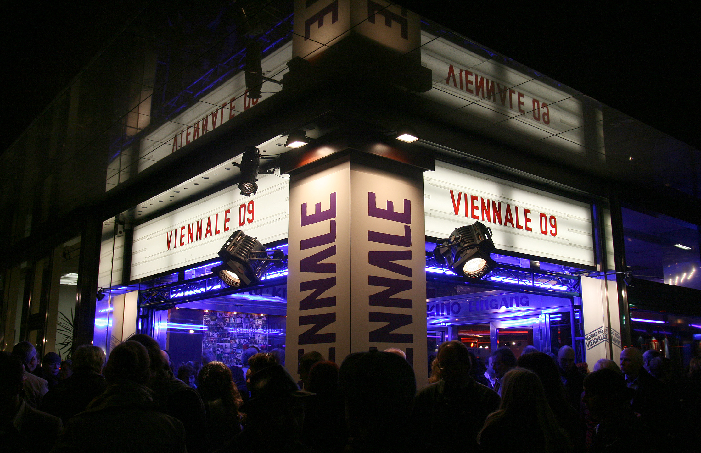 Opening evening of the Vienna International Film Festival 2009 at the Gartenbaukino in Vienna.